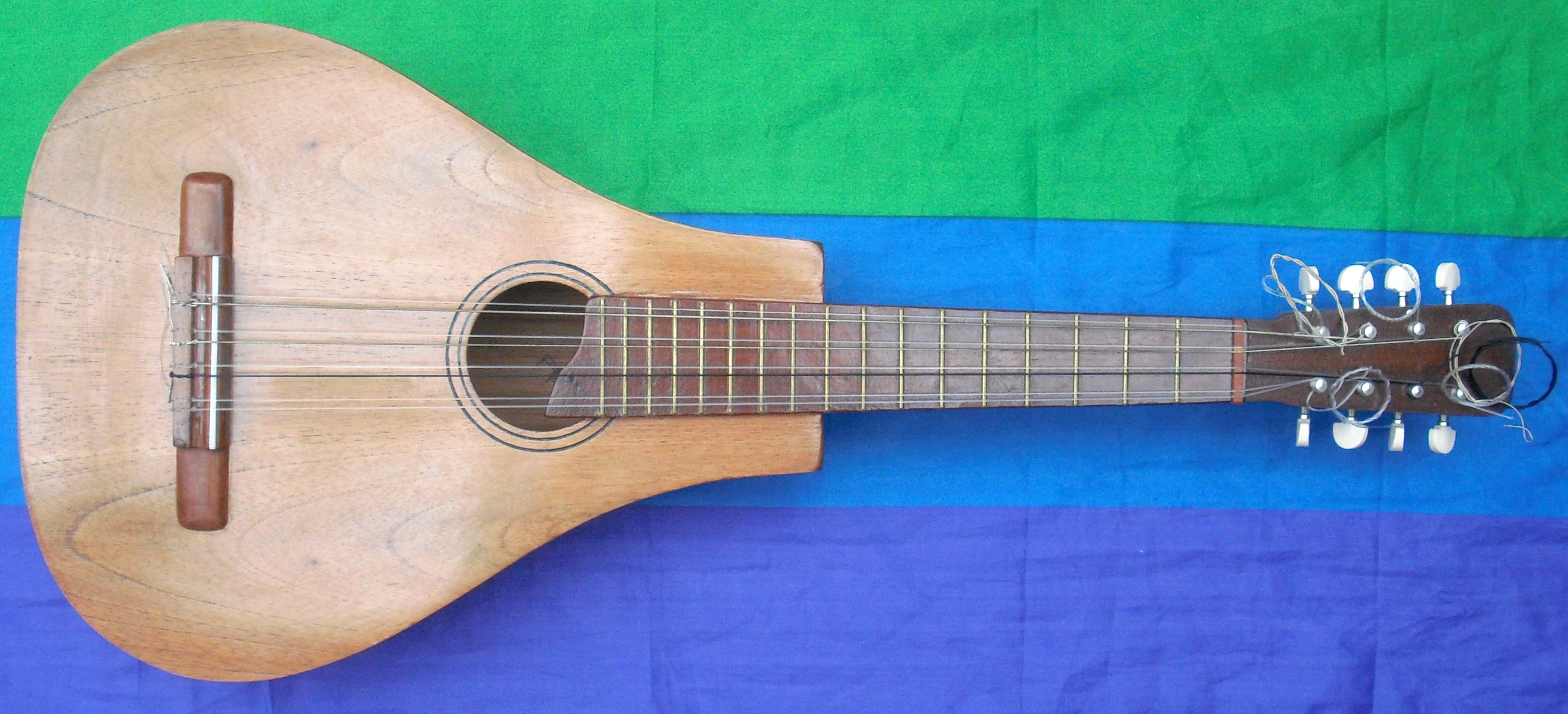 Venezuelan Bandola oriental